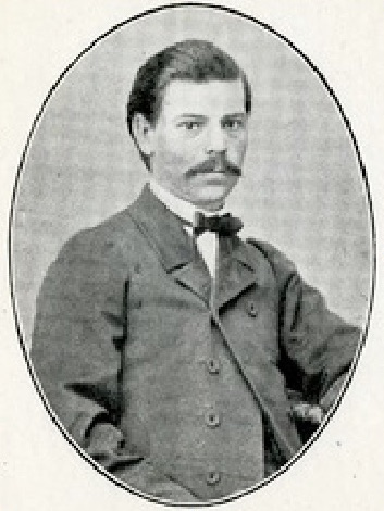 Image of the Finnish phytogeographer Johan Peter Norrlin (1842–1917) at age 23.